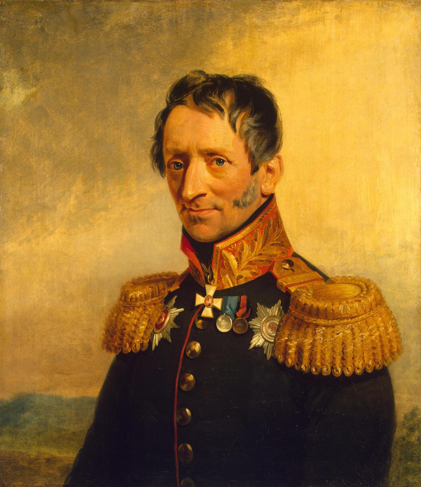 Sivers, Karl Karlovich 1-st, (08.11.1772 – 18.03.1856) Russian lieutenant general.